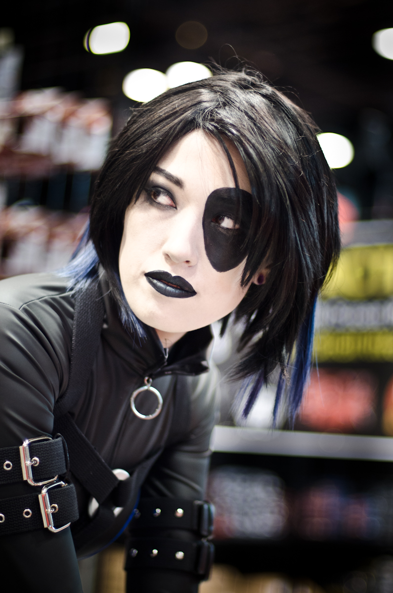 Cosplay at the 2013 Chicago Comic & Entertainment Expo (C2E2).